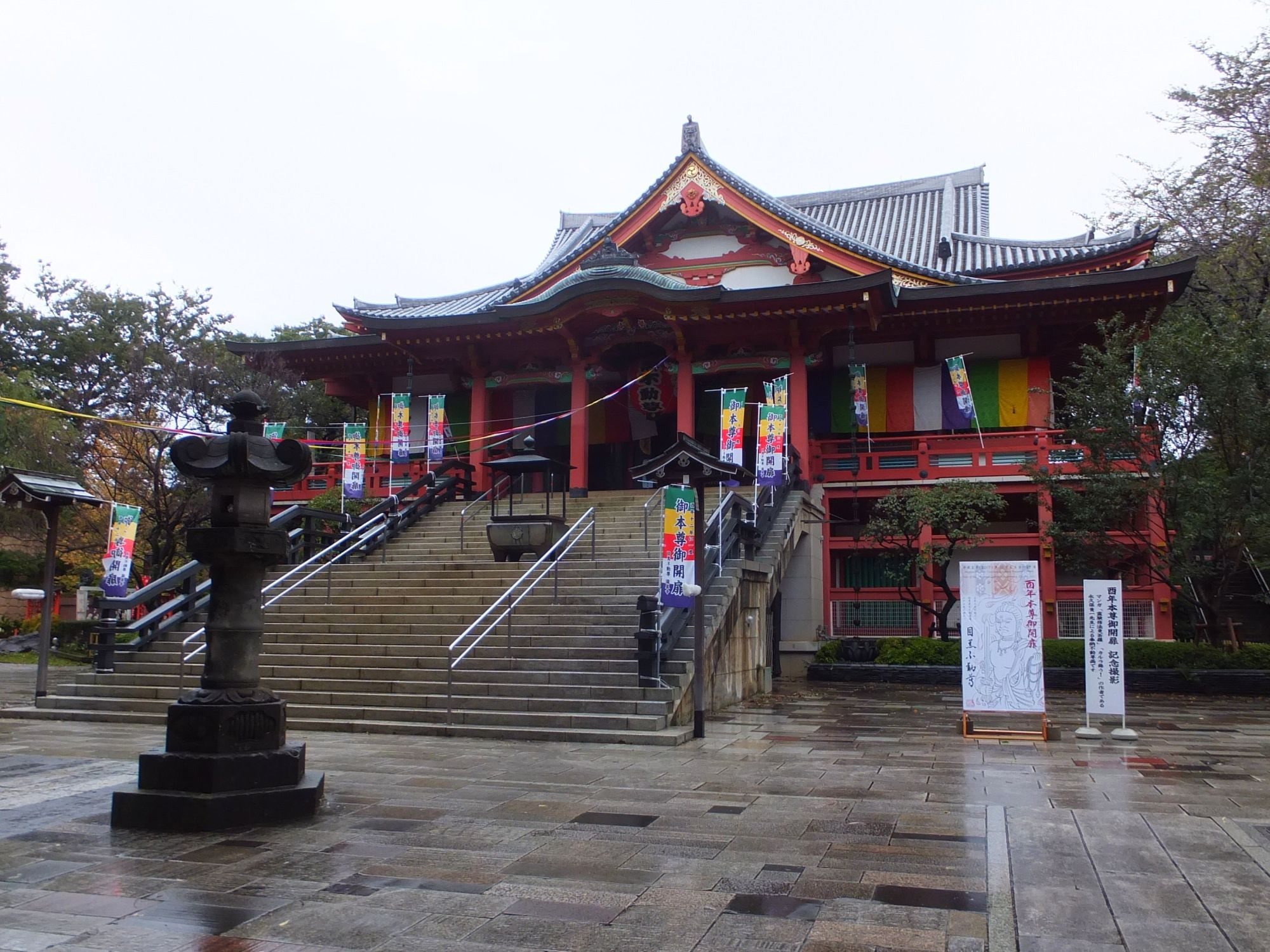 Main hall of Ryūsen-ji temple (Meguro Fudō) in Meguro, Tokyo